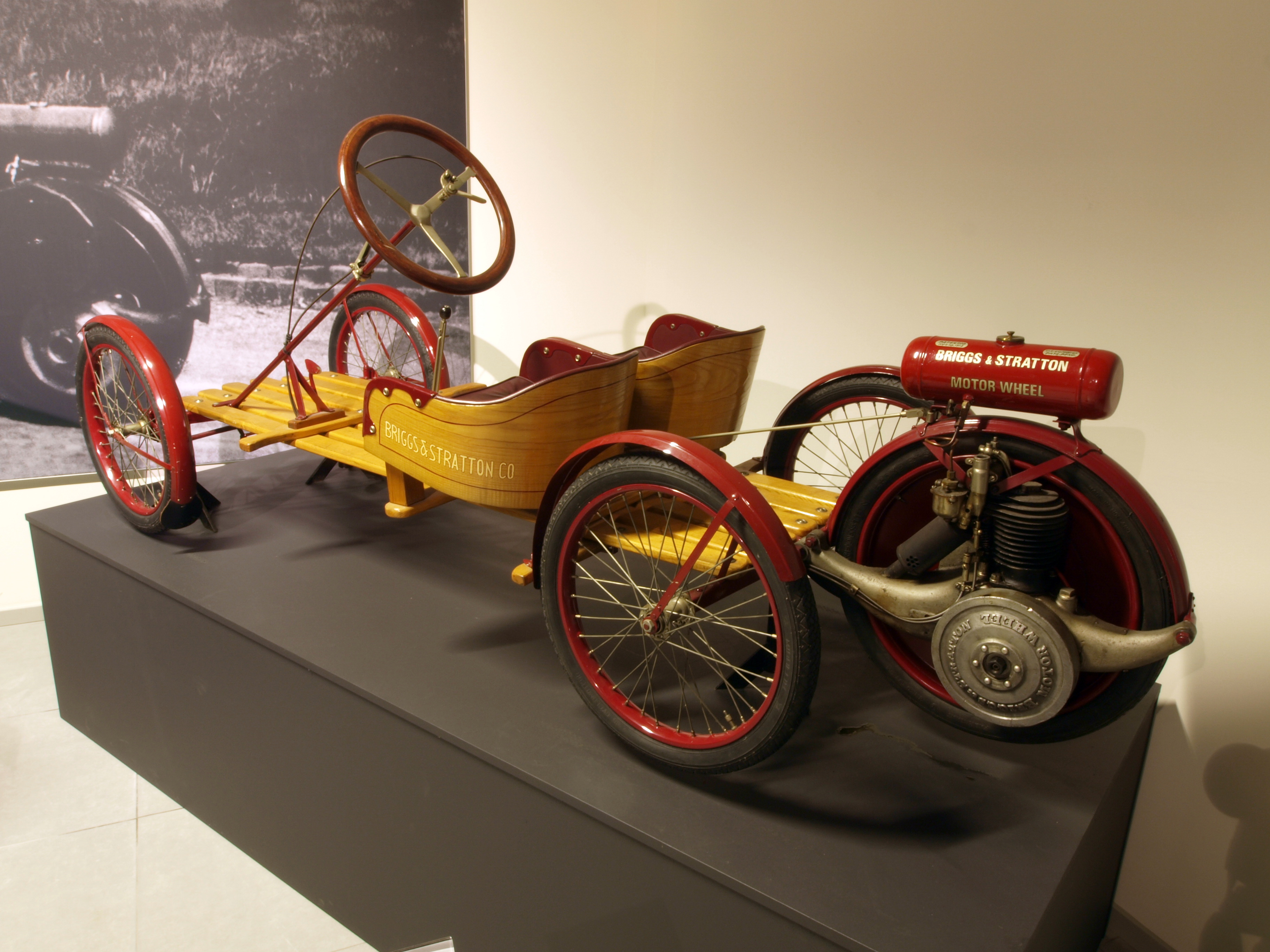 Photographed at the Louwman museum / Louwman Collection, The Netherlands.